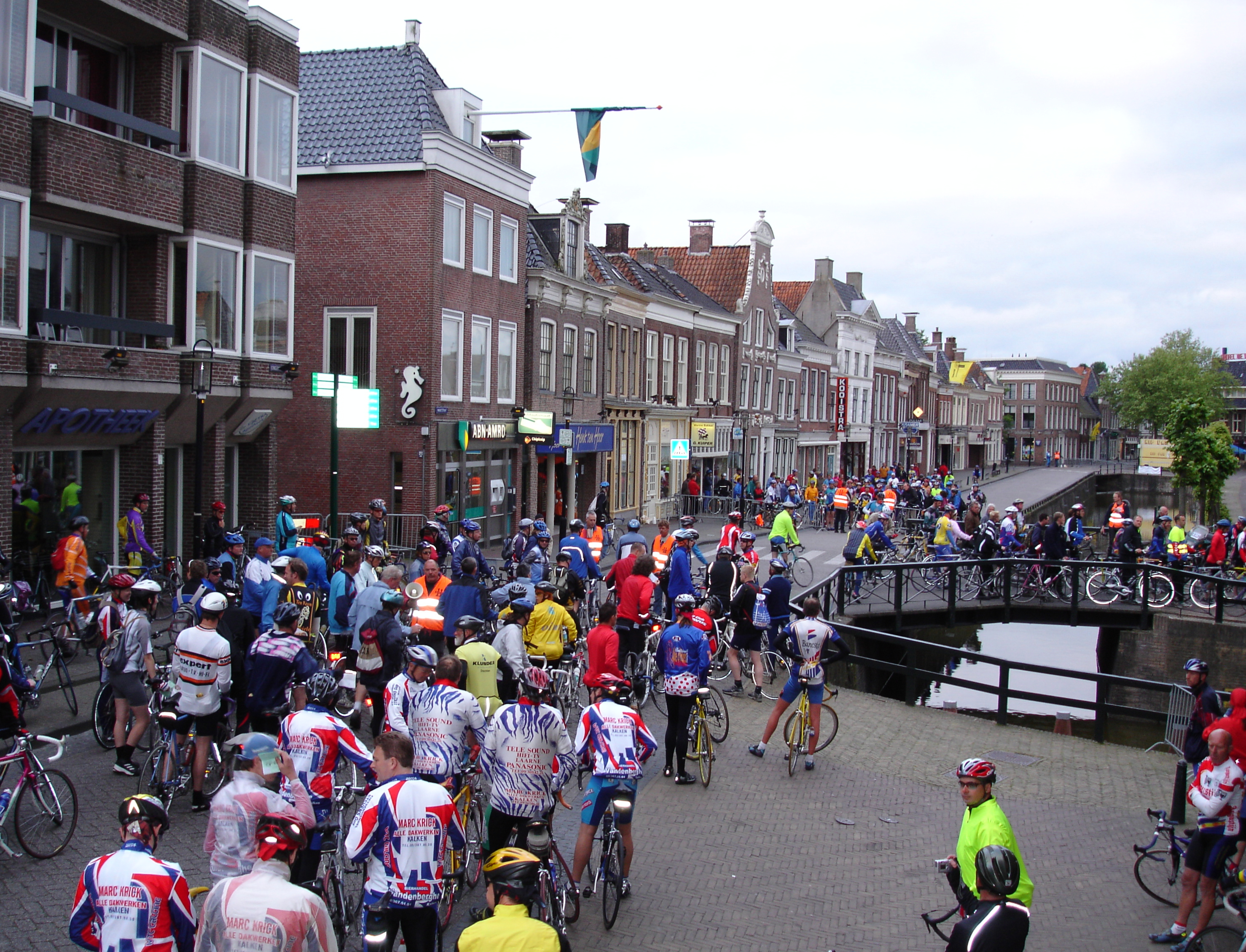 left half of stereo picture for cobox start of 11 cities tour, Bolsward, 2006